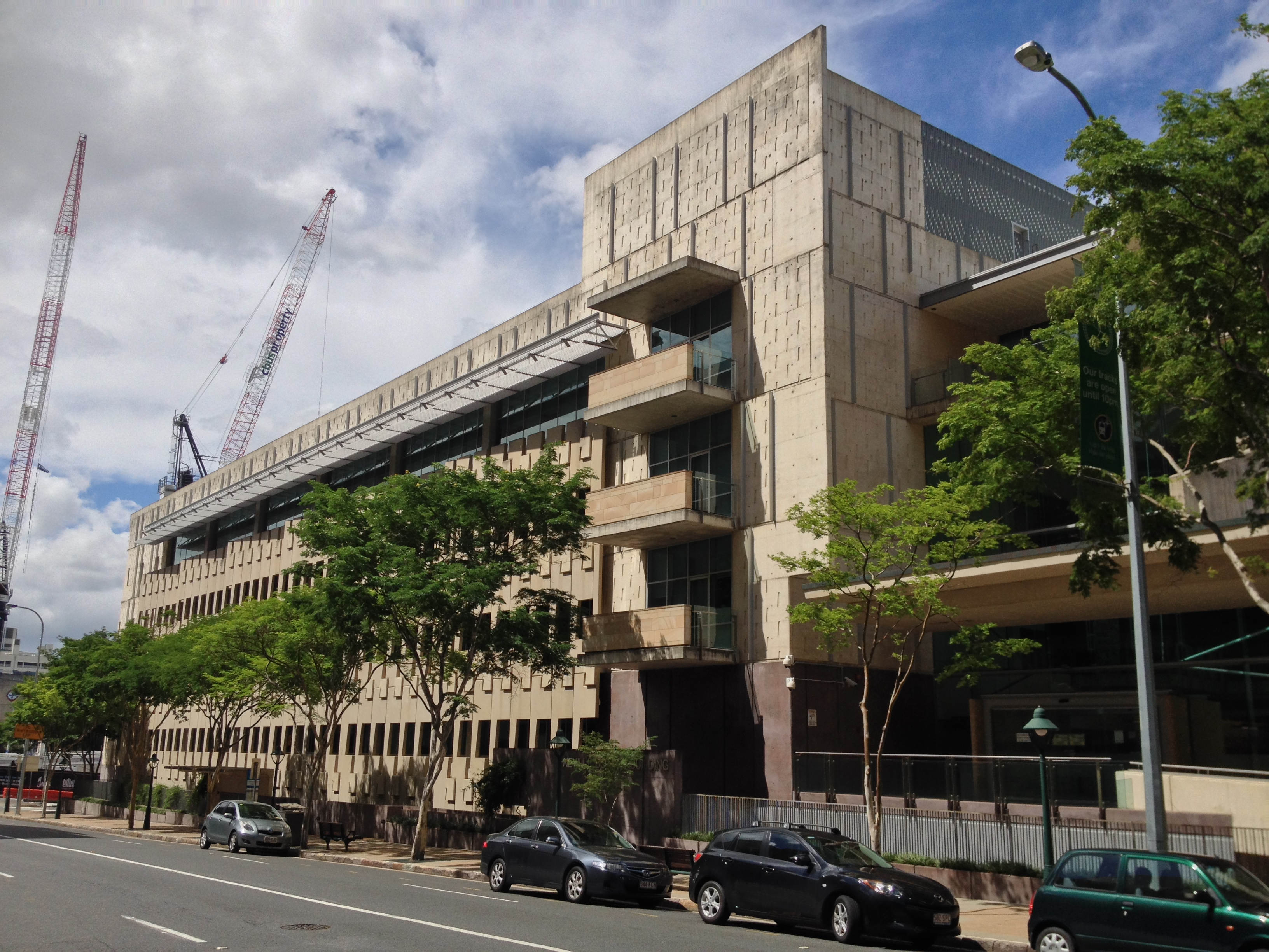 Neville Bonner Building at 75 William St, Brisbane QLD 4000